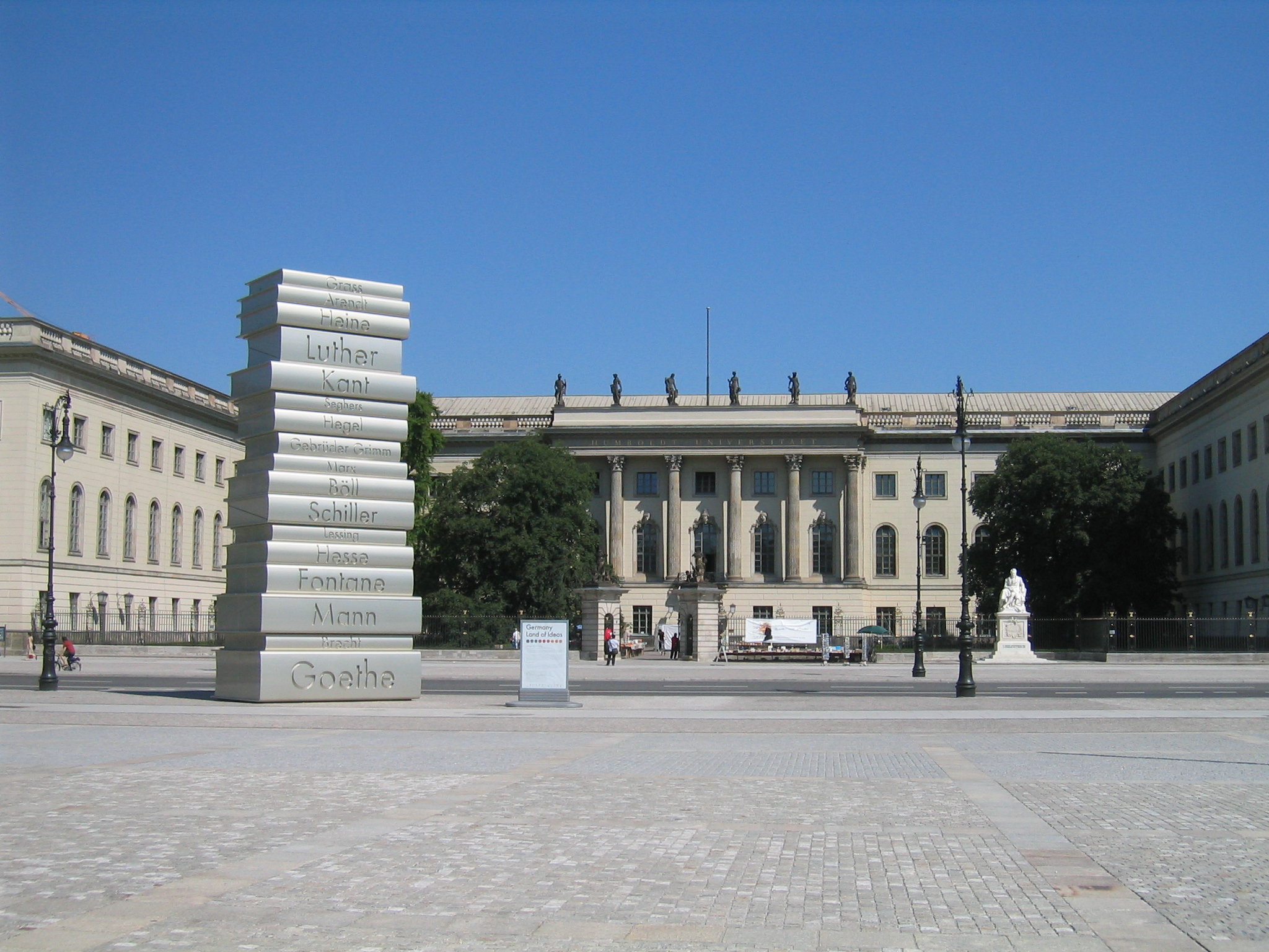 Walk of Ideas "Modern Book Printing" with Humboldt University in background